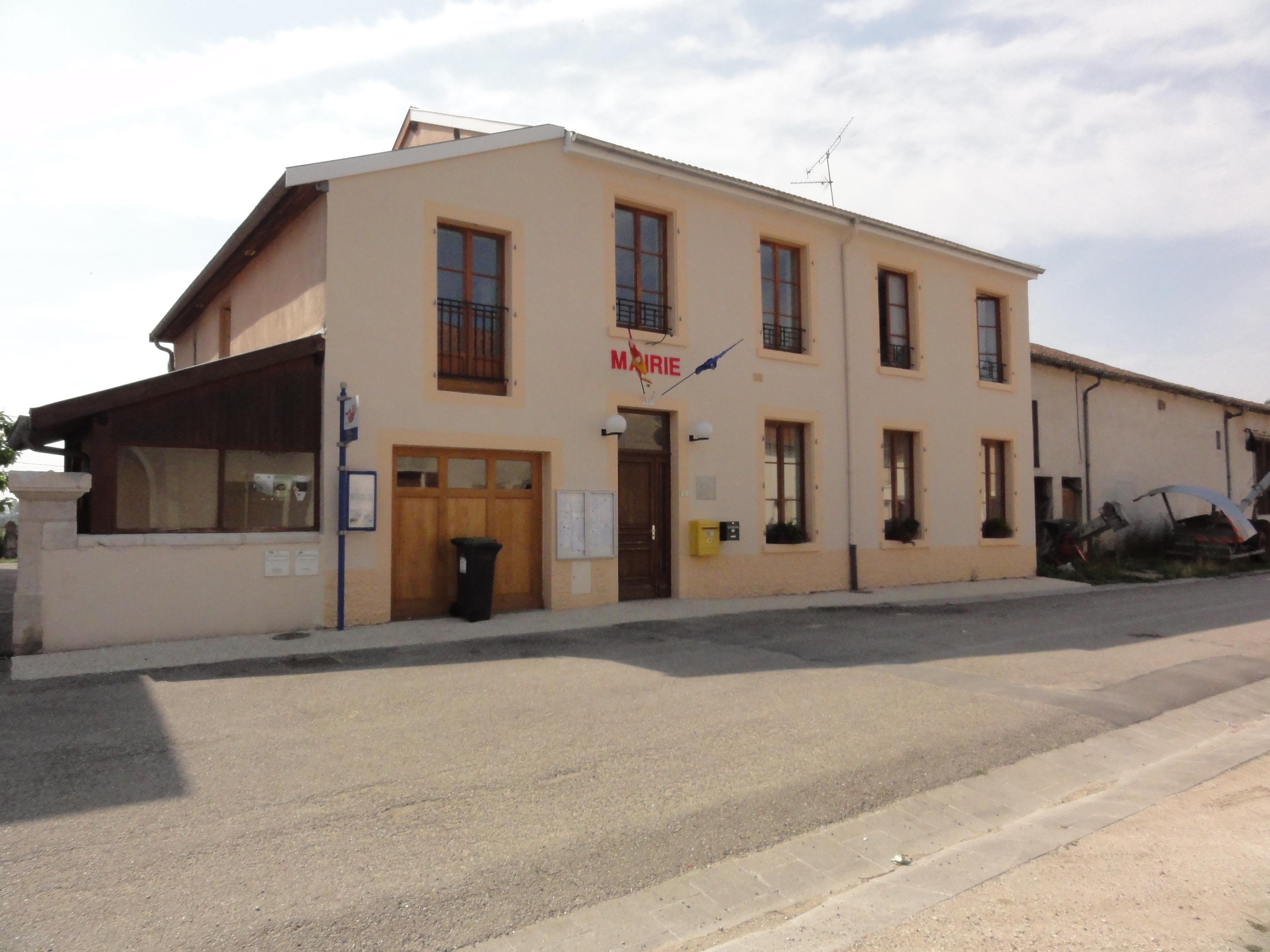 Sanzey (Meurthe-et-M.) mairie